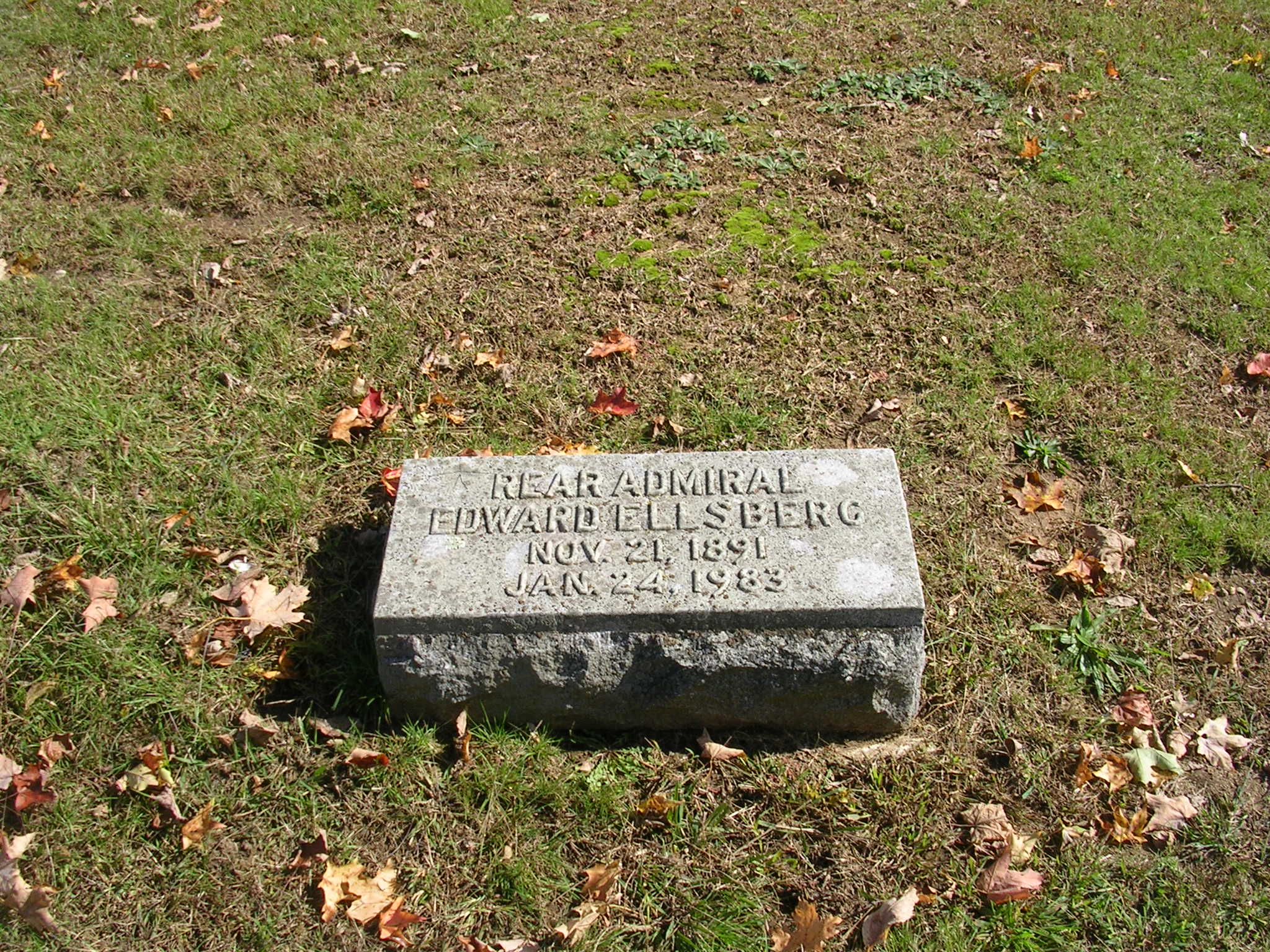 Grave of Rear Admiral Edward Ellsberg